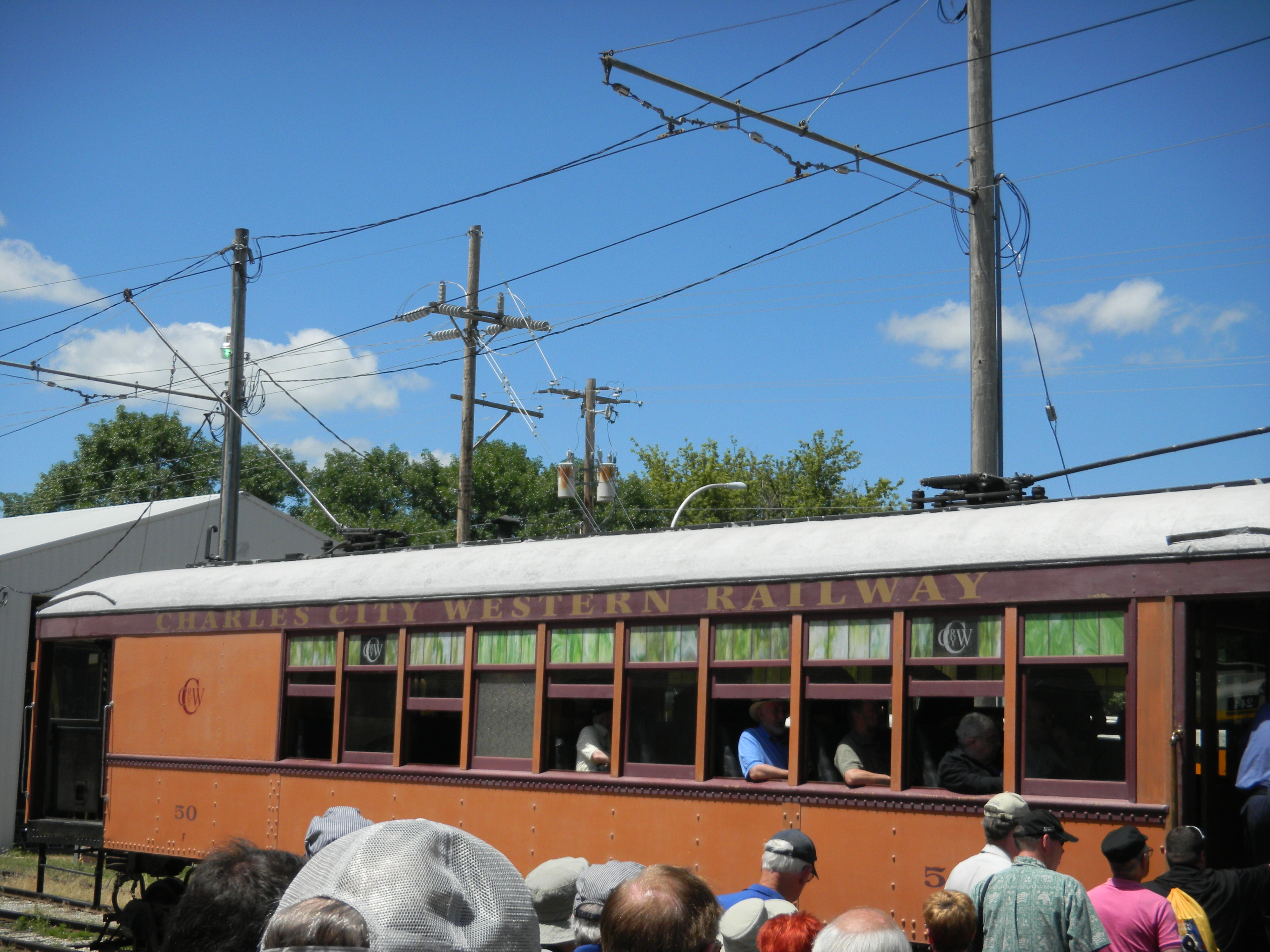 Ex-Charles City and Western trolley car X50 at Boone and Scenic Valley Railroad.